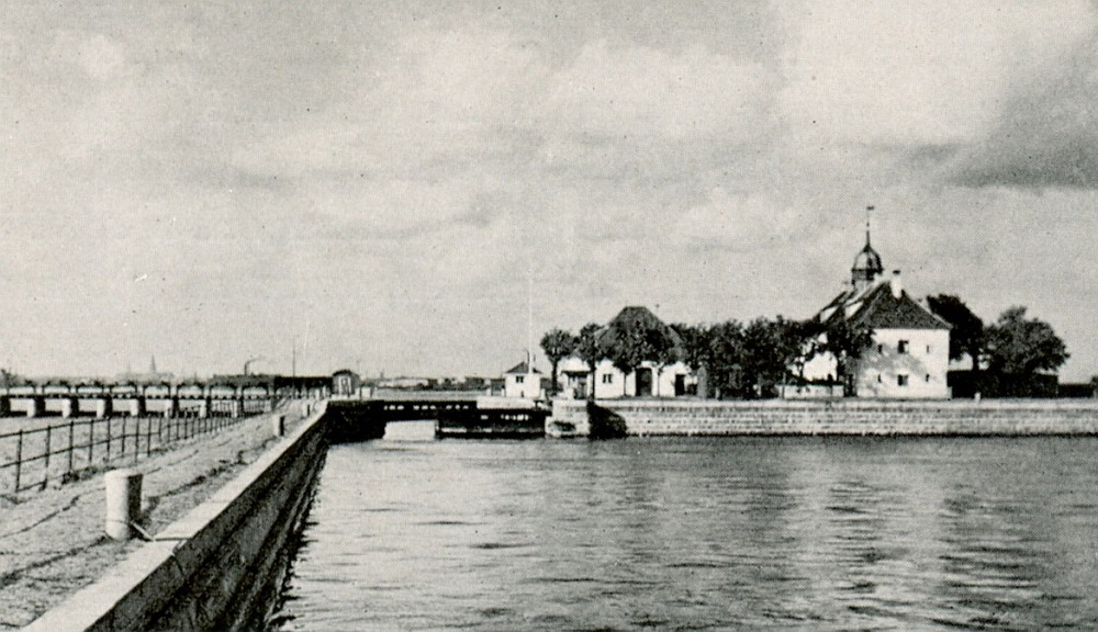 Slusen in Copenhagen, Denmark